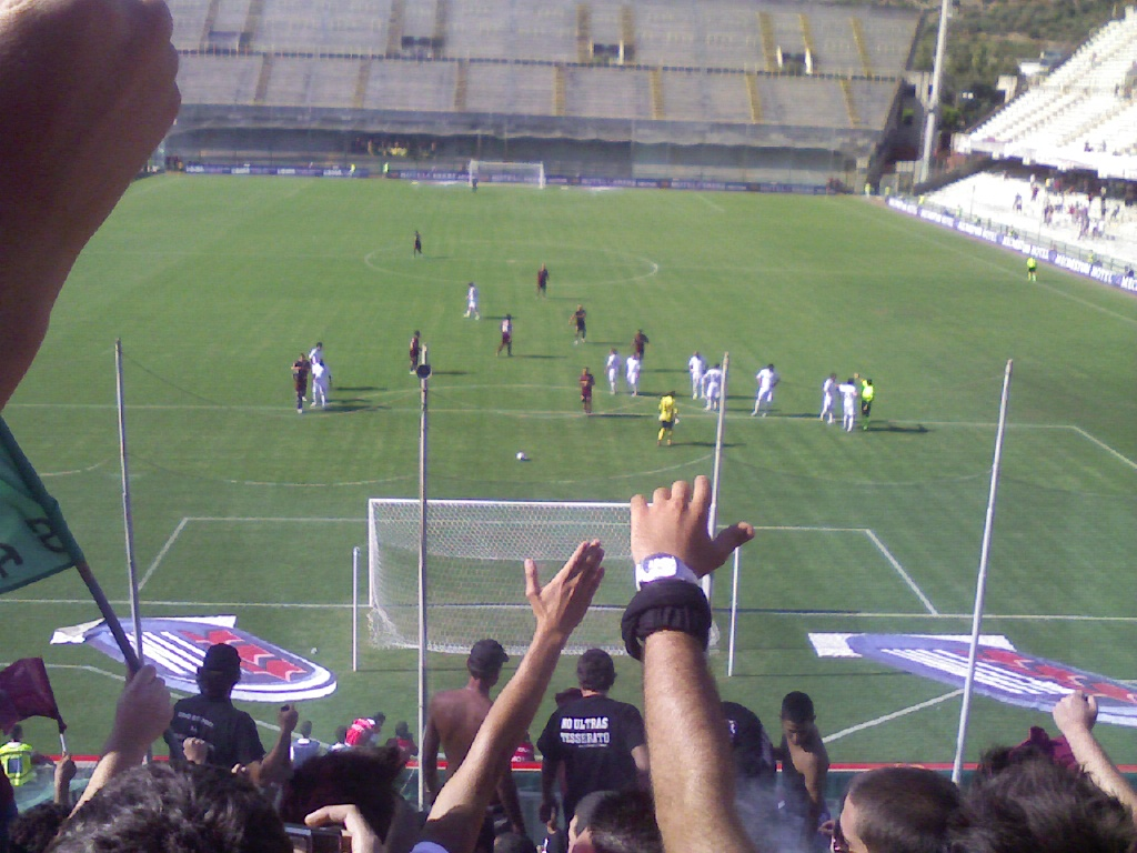 Francesco Cozza (penalty) in Salernitana v Modena